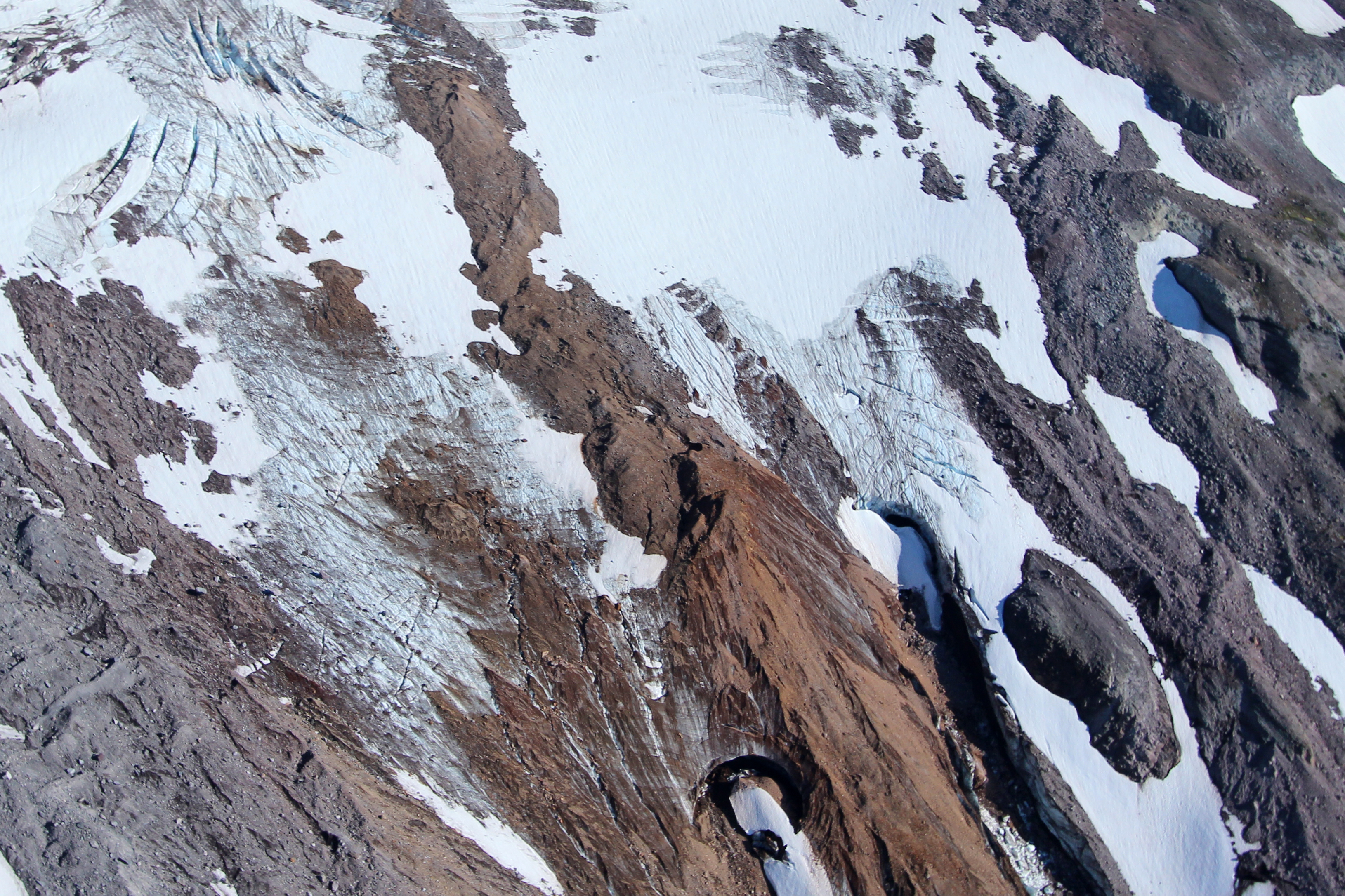 The collapsed "Snow Dragon" and the nearby "Pure Imagination" ice caves, located under the Sandy Glacier on Mt. Hood.